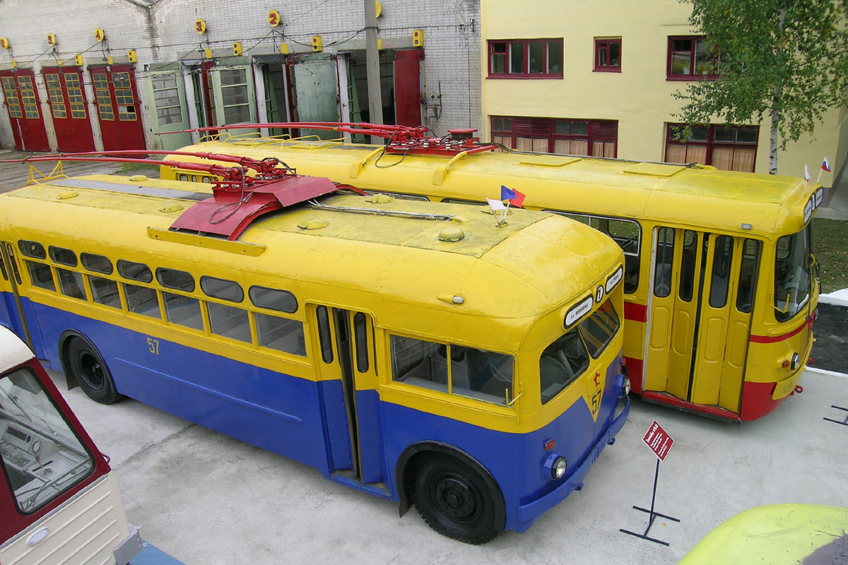 The Soviet trolleybuses of MTB-82 (in yellow-blue colors) and ZiU-5 (in yellow-red colors) types in museum in Nizhni Novgorod